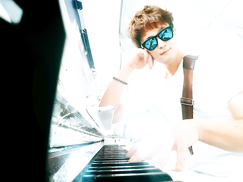 Jay the sky